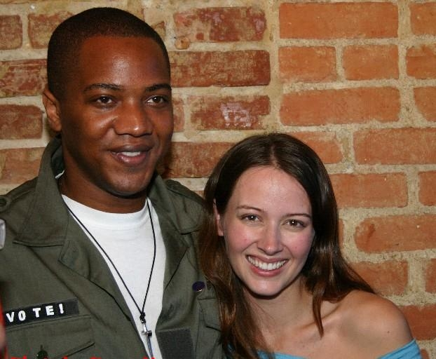 J. August Richards (left) and Amy Acker at a 2004 John Kerry fundraiser.